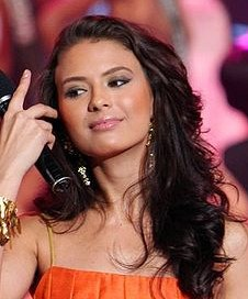 Miss Earth 2004, Priscilla Meirelles of Brazil! as a host during Miss Earth 2007